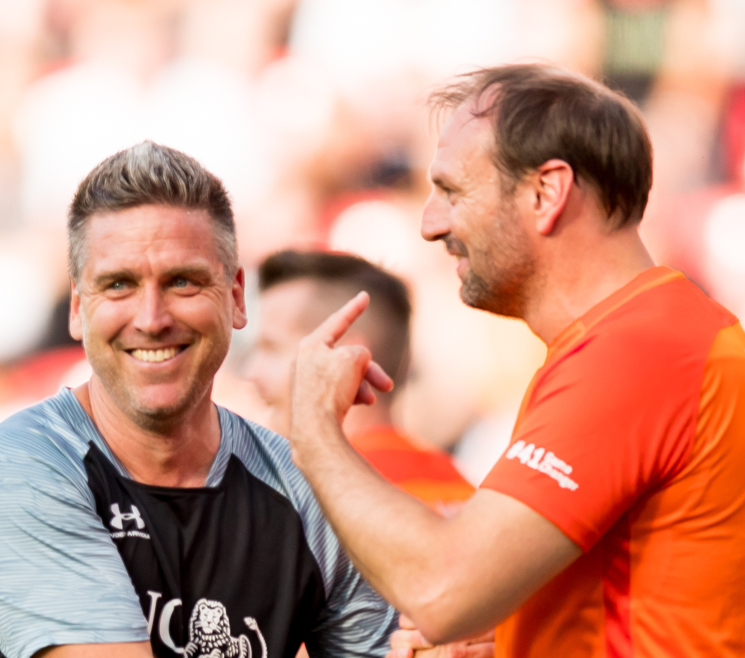 Miscellaneous during Champions for Charity at BayArena, Leverkusen, Nordrhein-Westfalen, Germany on 2019-07-21, Photo: Sven Mandel